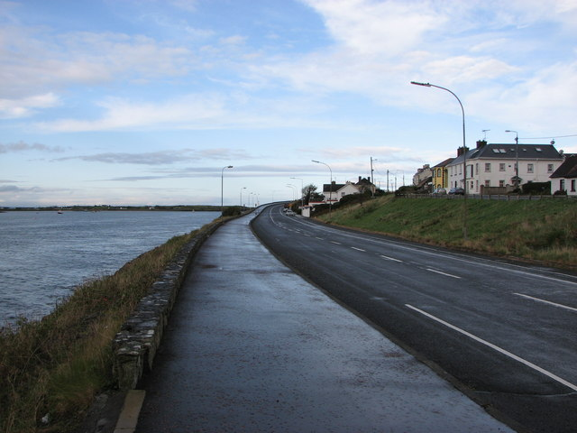 Rosses Point,Sligo Looking along the R291 towards Rosses Point.